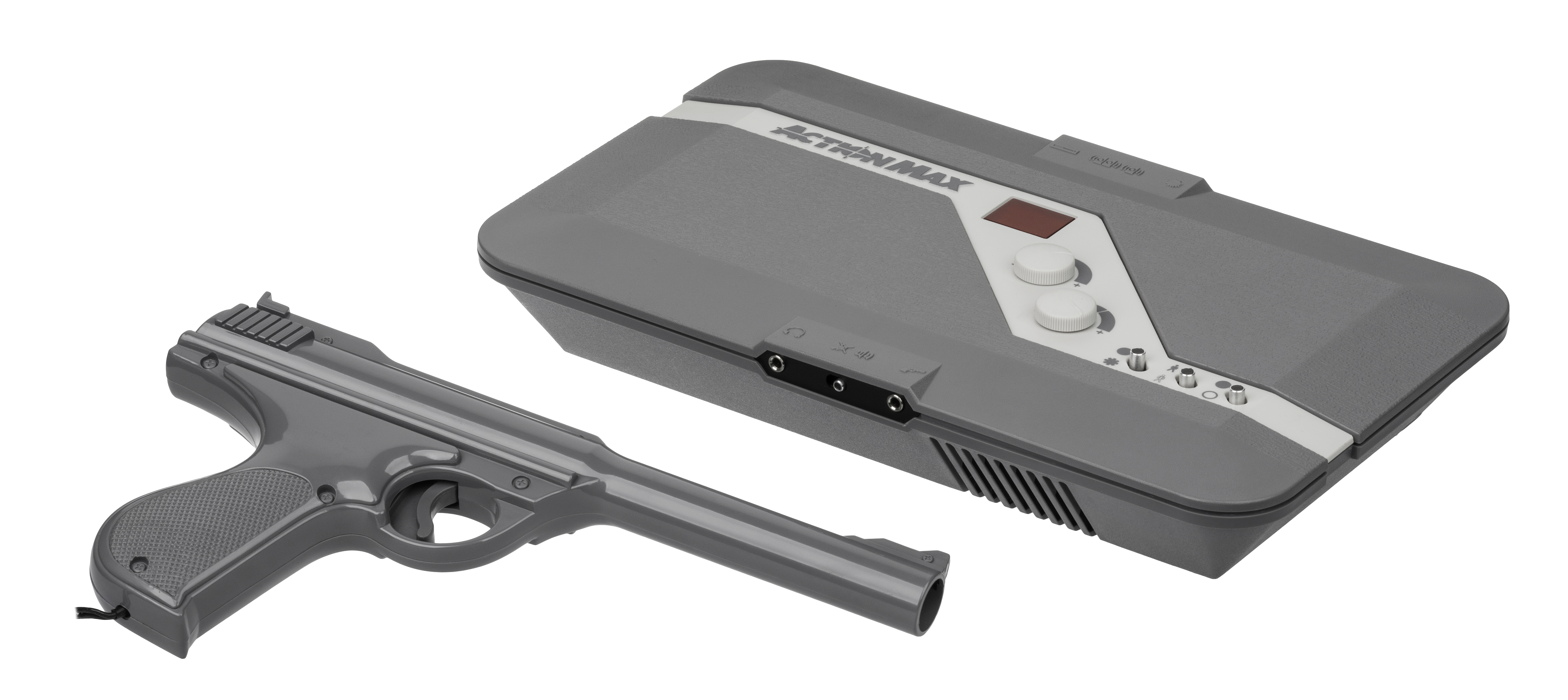 The Action Max video game console. Released in 1987 by Worlds of Wonder, it was a console that worked in conjunction with a VCR to play light gun "games". Games came on VHS tapes and were on-rails shooters that featured no real interactive elements. The console merely kept track of how many hits were scored during the game, utilizing an external red light to alert players to successful hits.